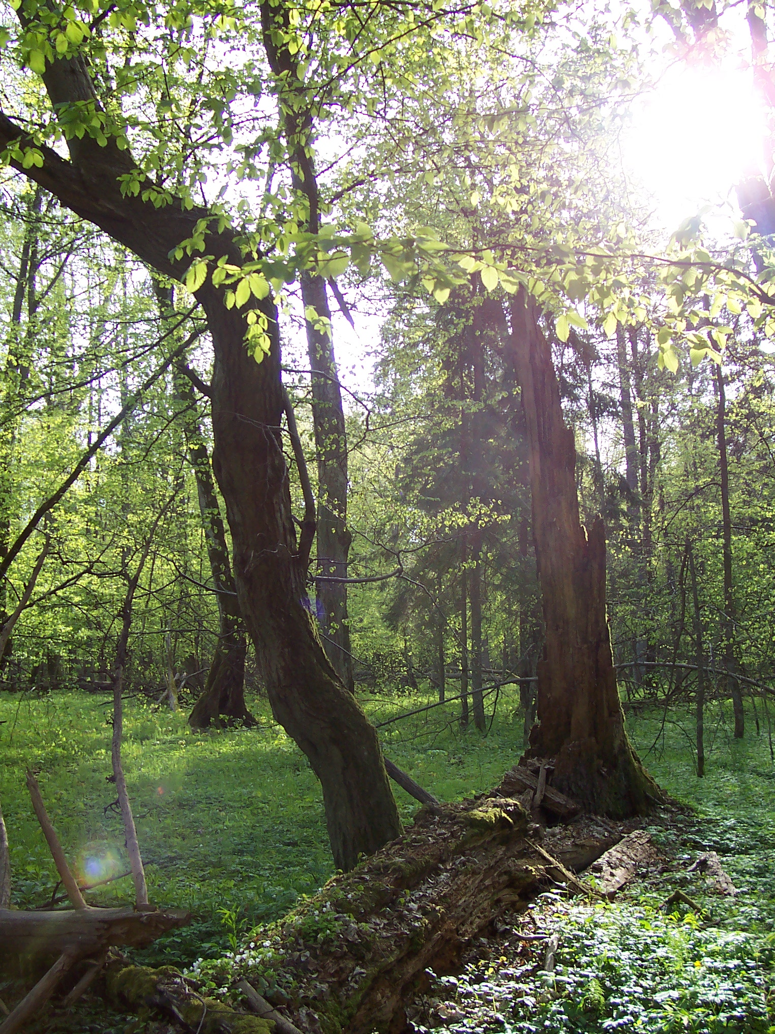 Białowieża Forest National Park